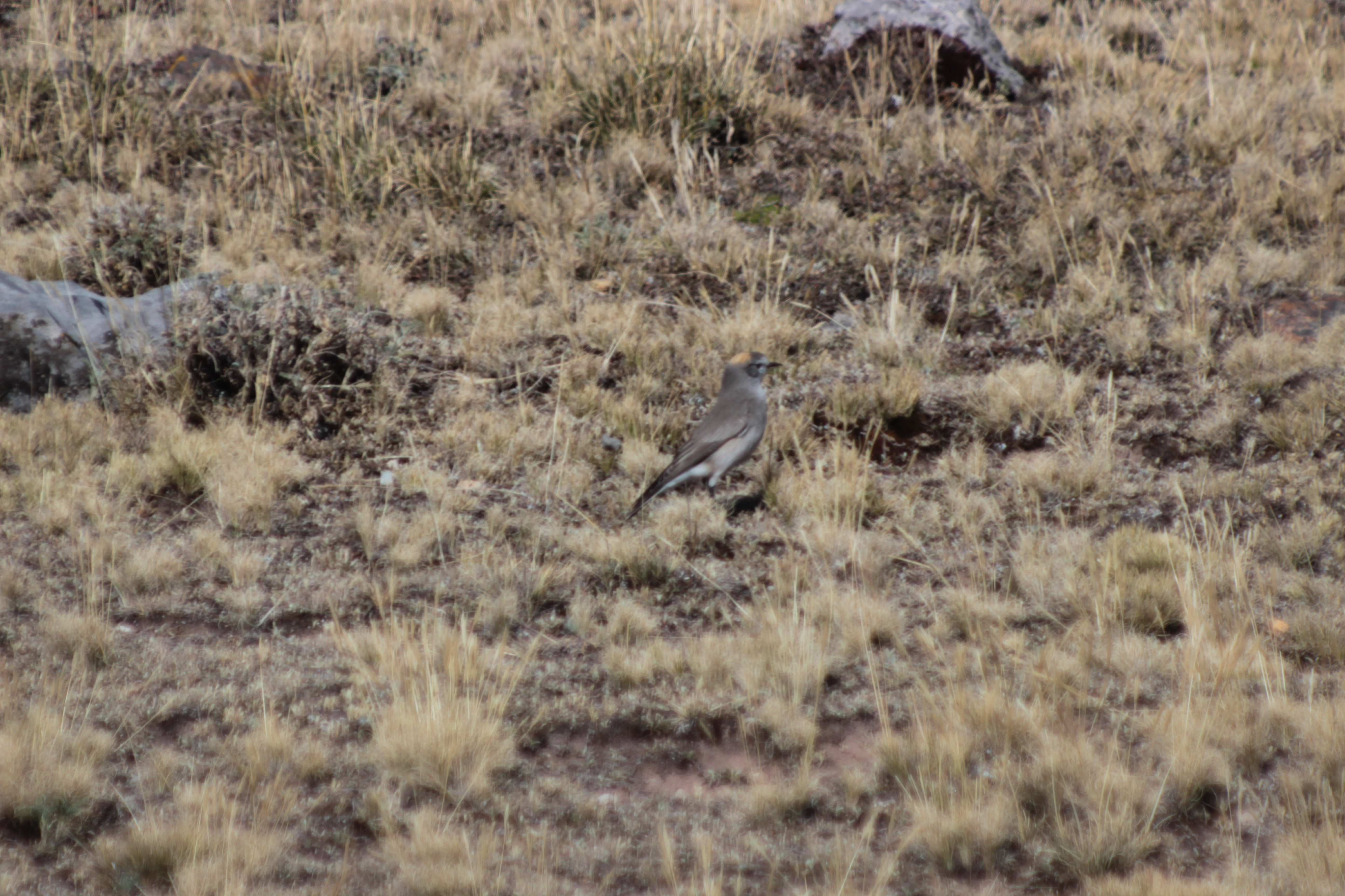 Ochre-naped ground-tyrant